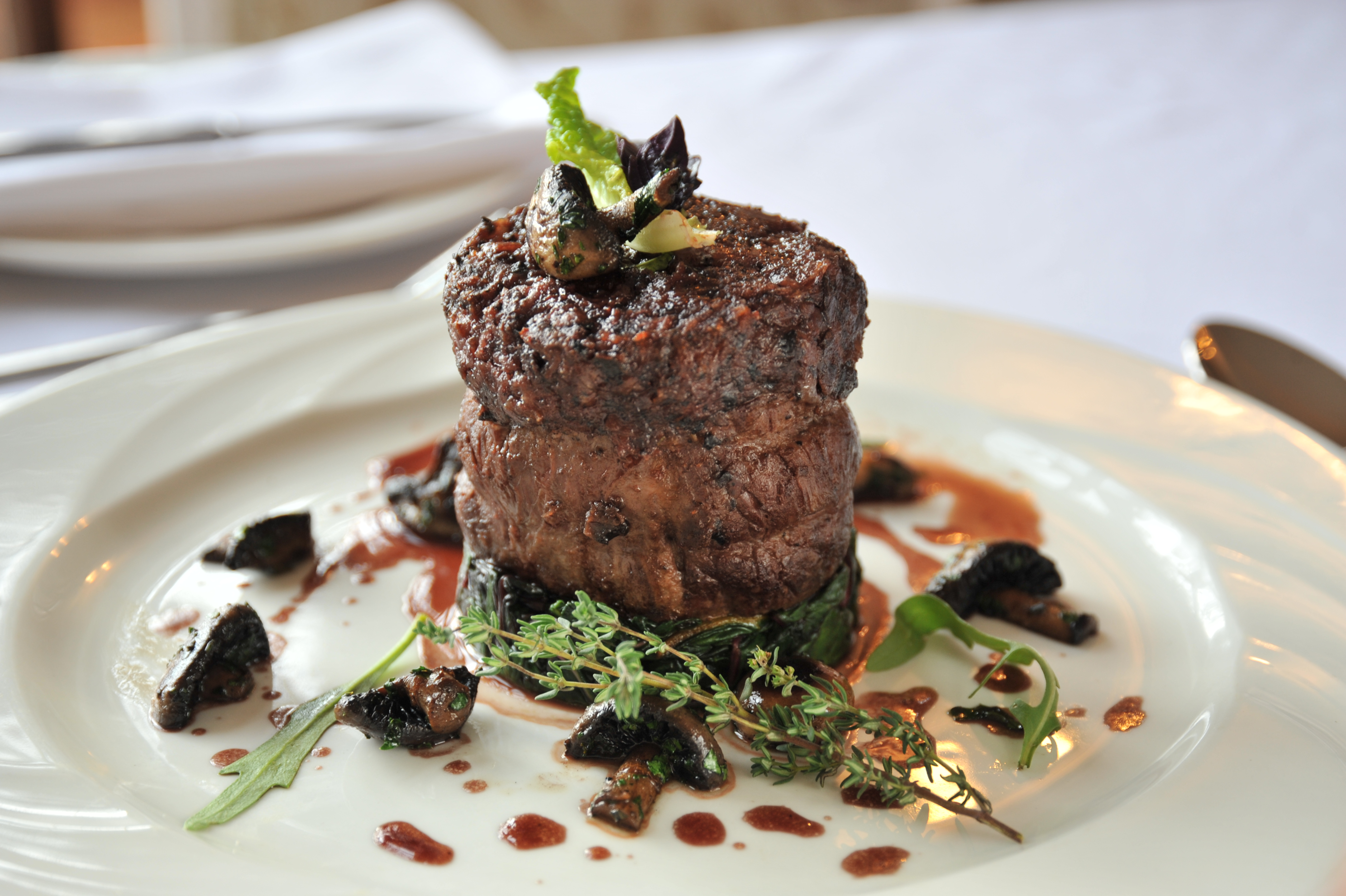 A main course by Greg Gautier